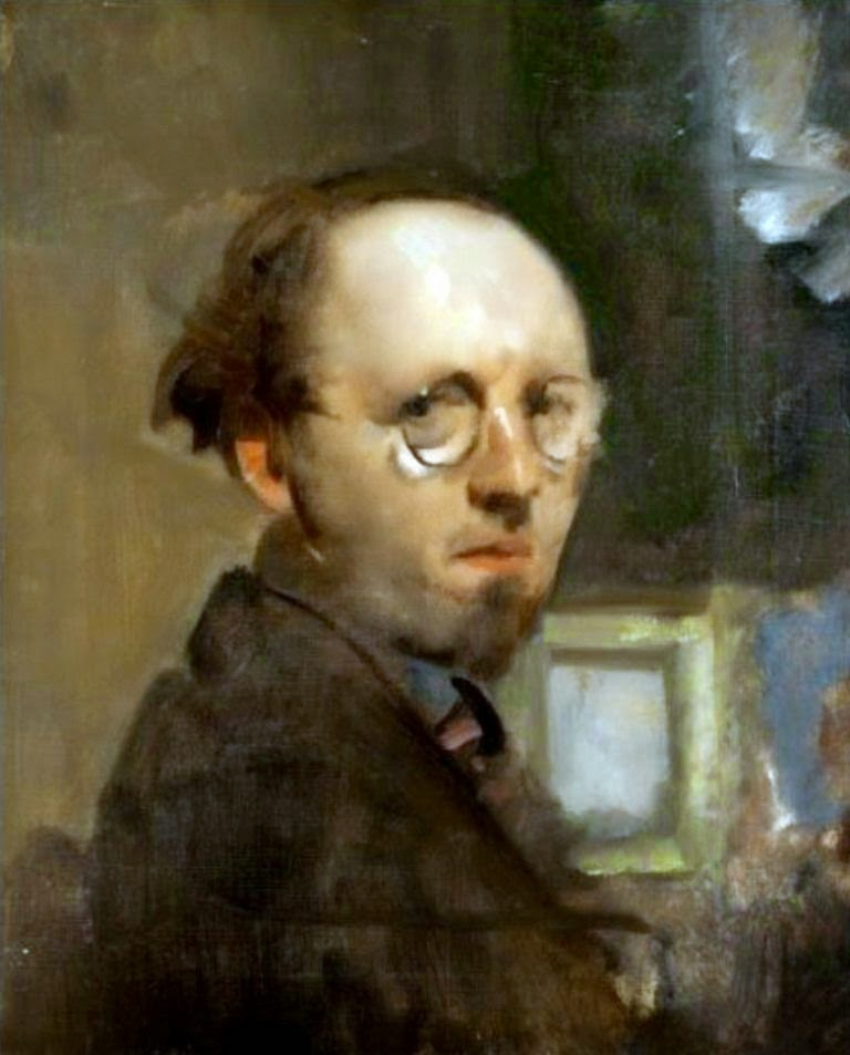 Autoritratto